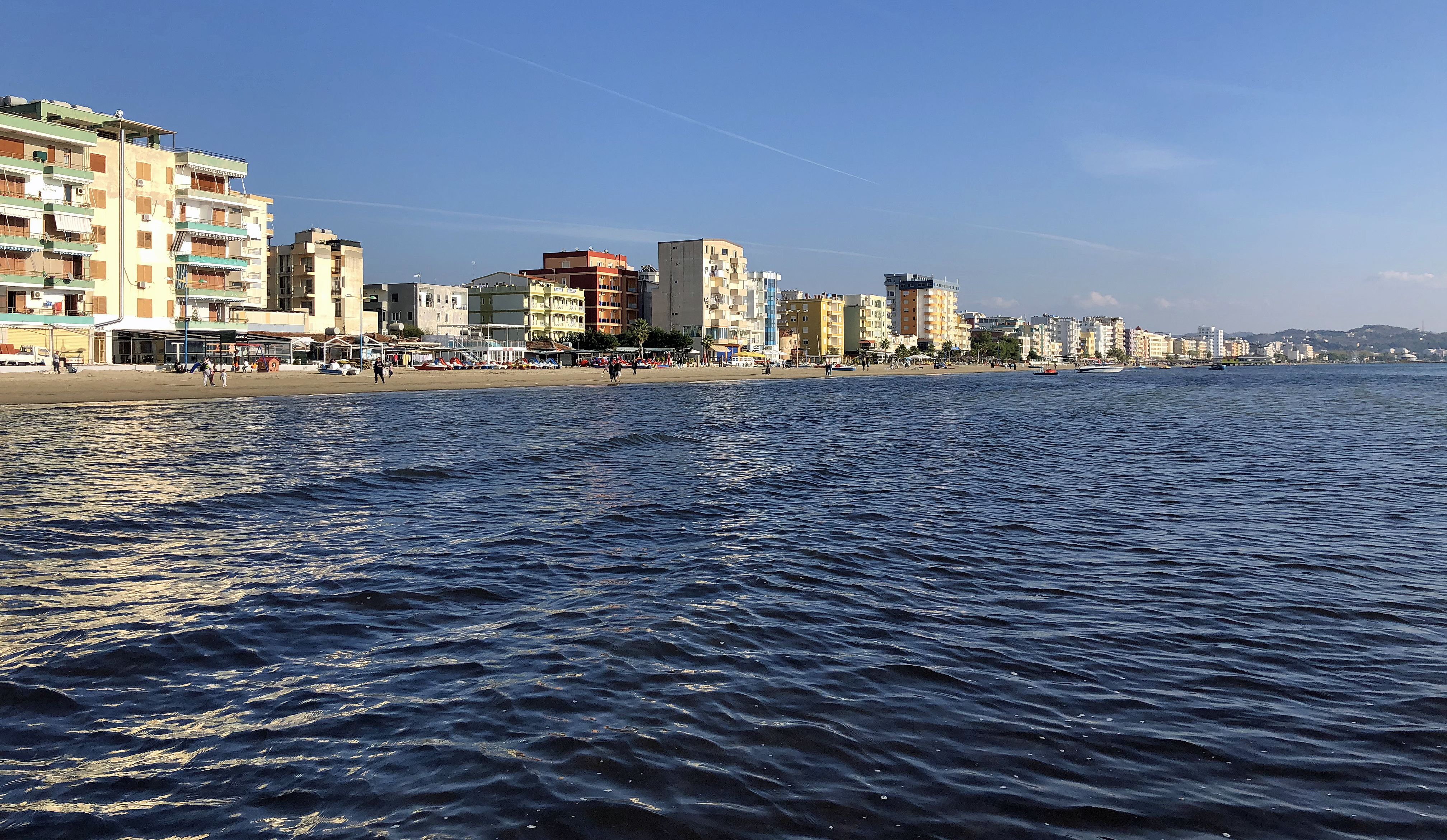 Swimming at the beach of Durrës on a sunny afternoon in November